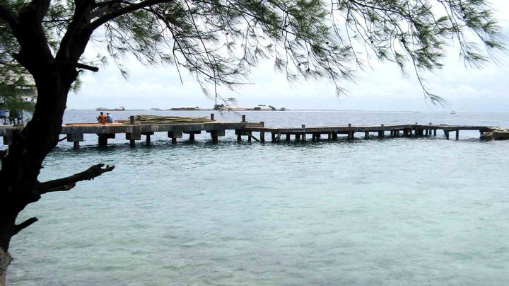 Kepulauan Seribu, DKI Jakarta, Indonesia